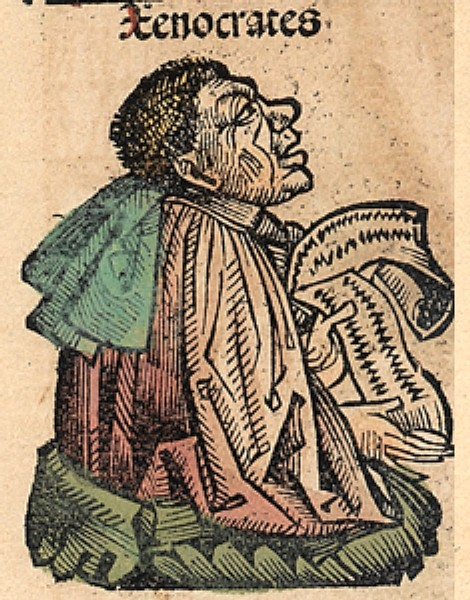 Ancient Greek philosopher Xenocrates, depicted in the Nuremberg Chronicle